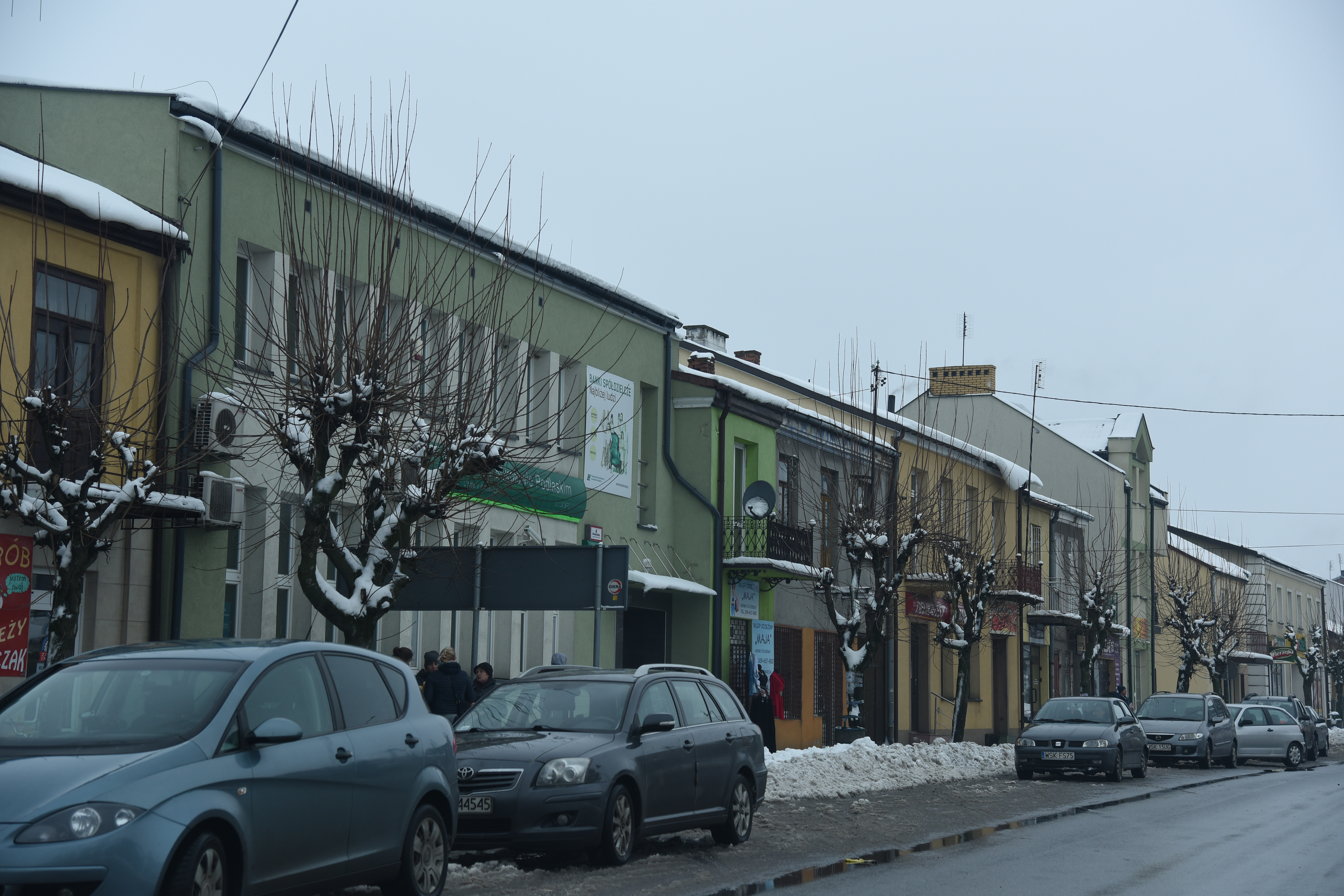 Masovian Voivodeship